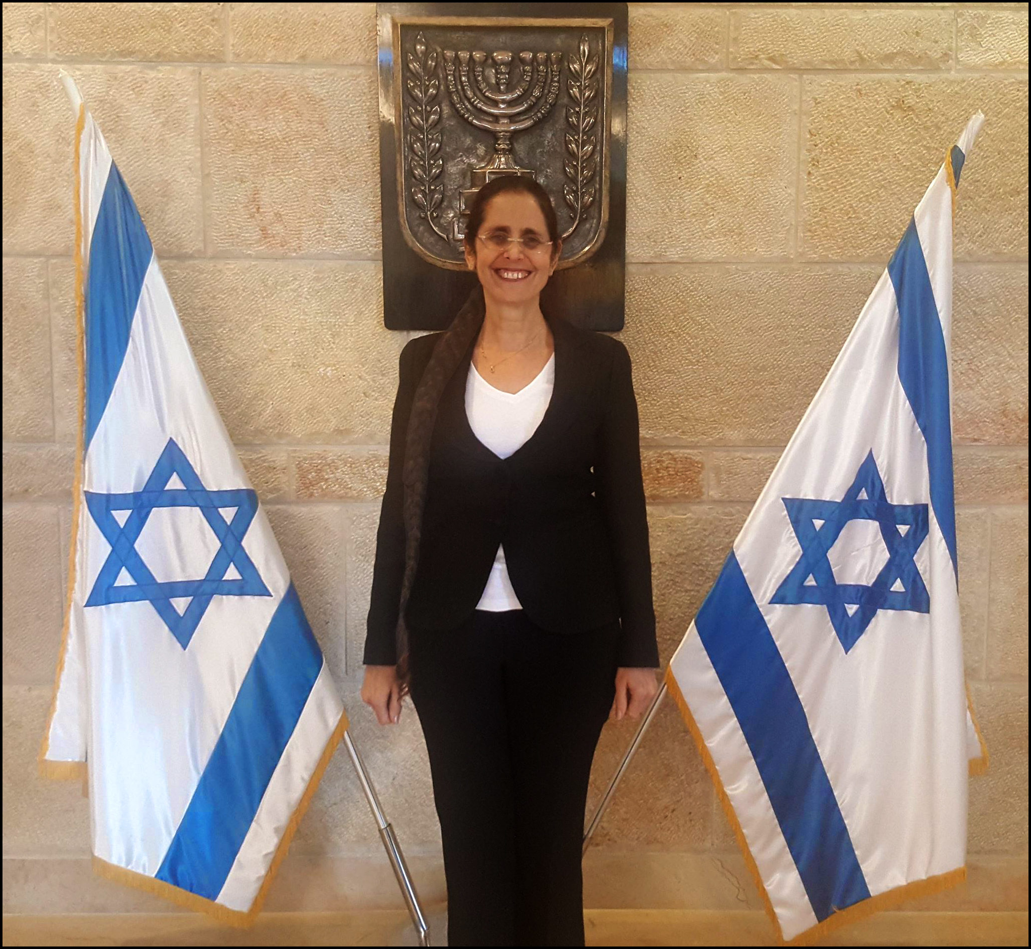 Member of the Israeli Knesset, Dr. Anat Berko, 2016